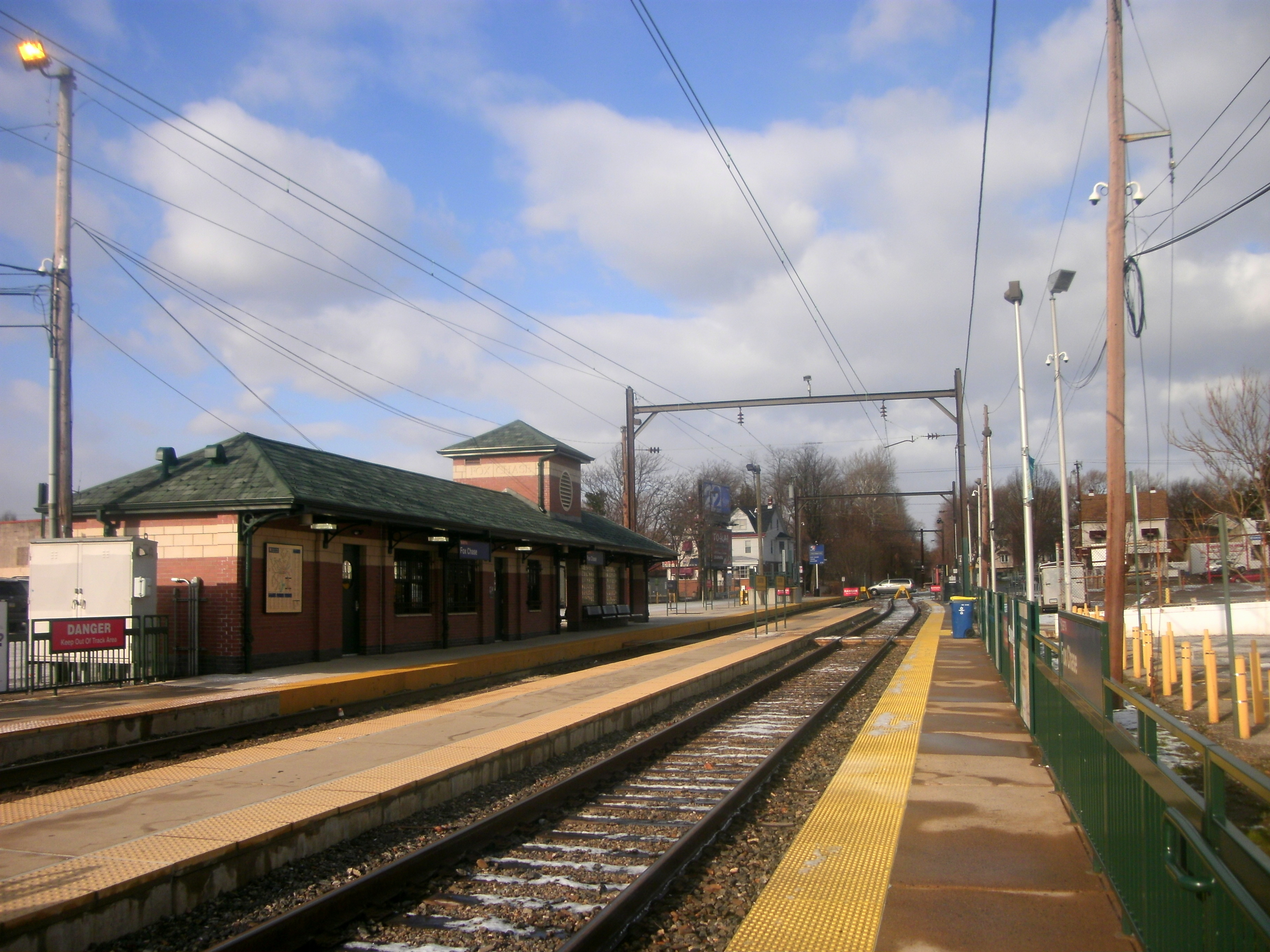 The Fox Chase station on SEPTA's Fox Chase Line, showing the depot constructed in 2011.